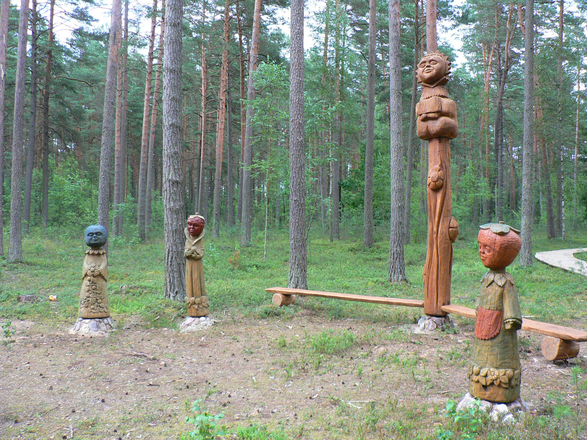 Group of wooden sculptures in Zamečkavas Sculpture Park